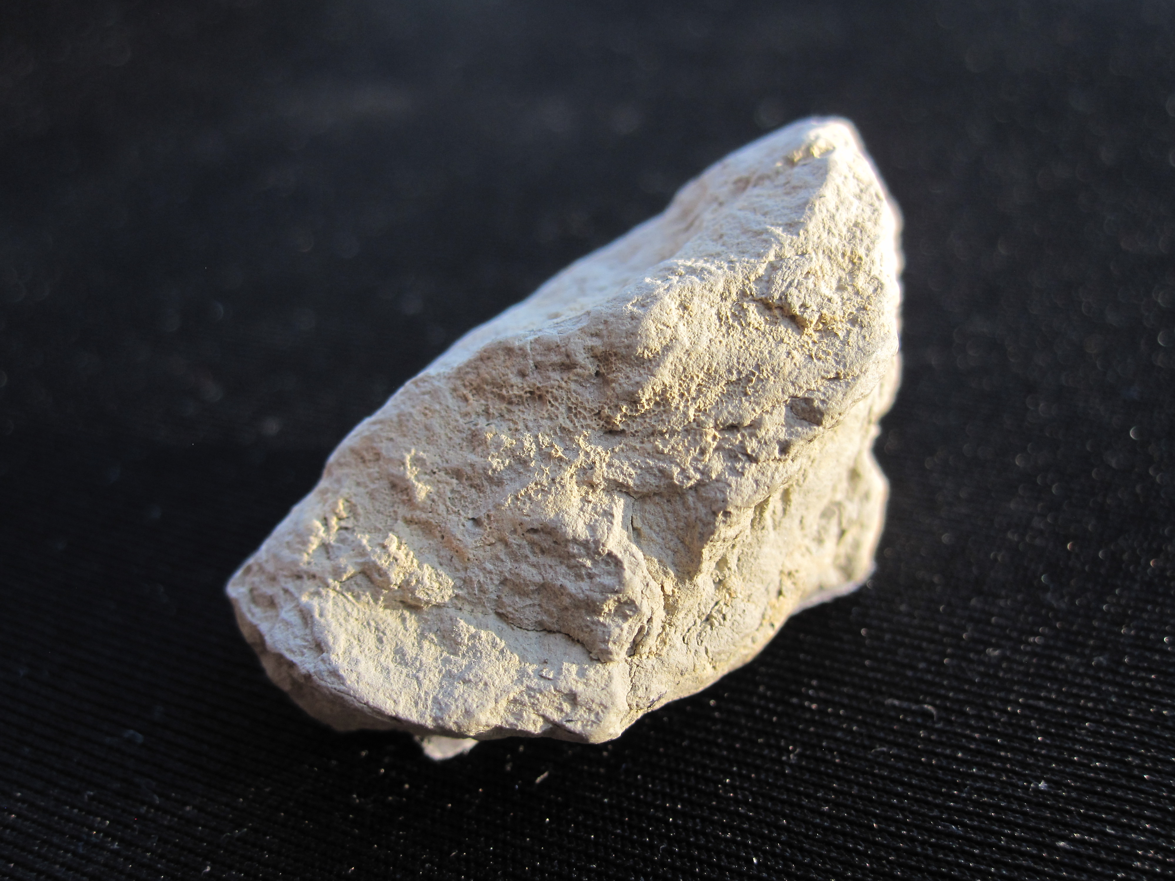 Piece of marl.